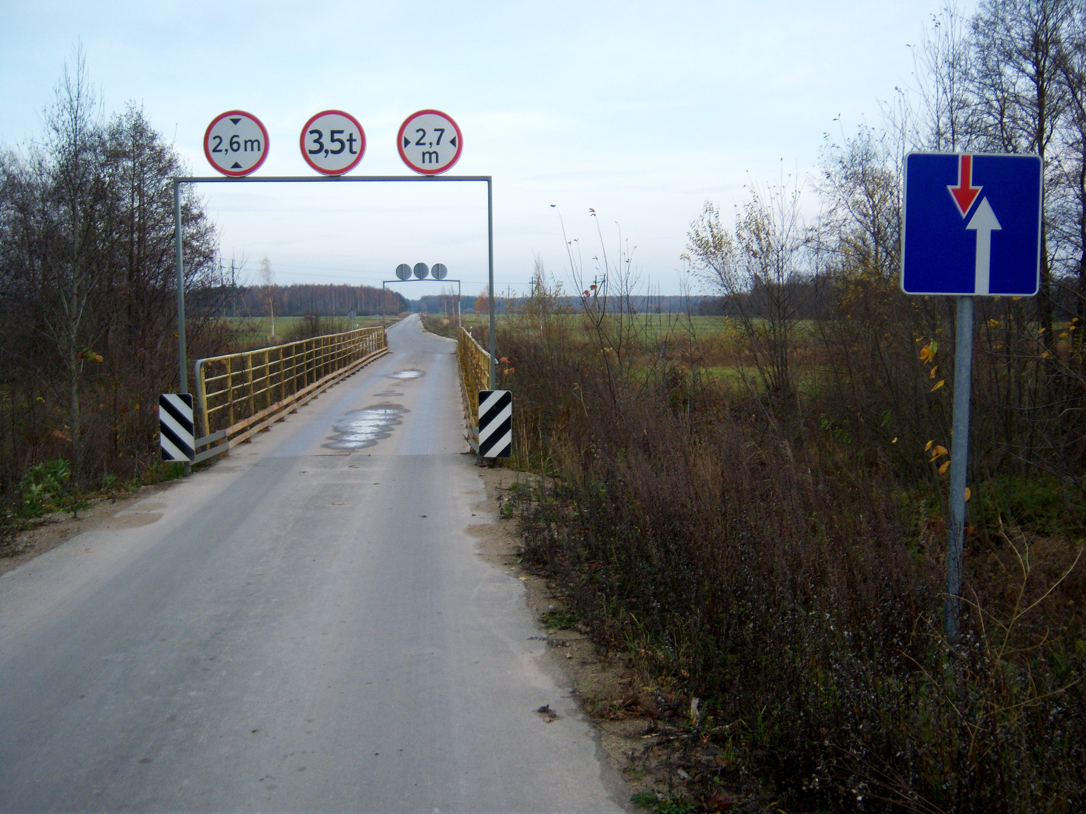 Skaistgiriai, Panevėžys district, Lithuania